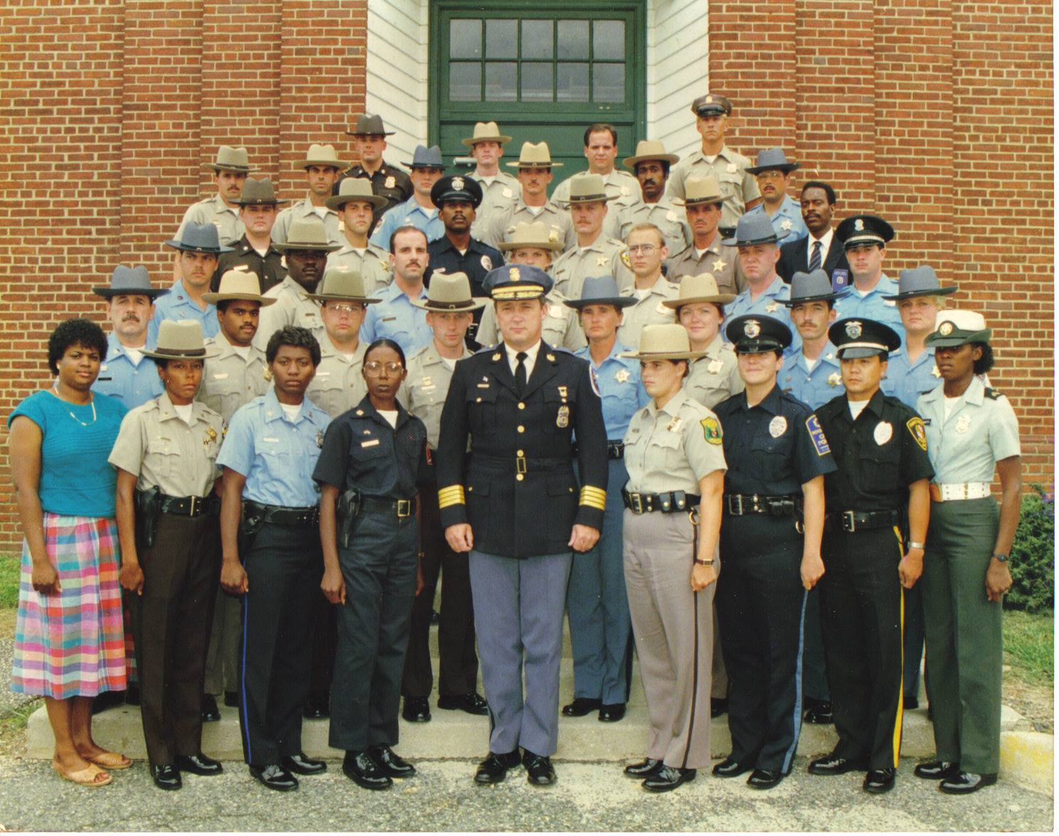 Prince George's County Law Enforcement Academy Session 30 (1986)